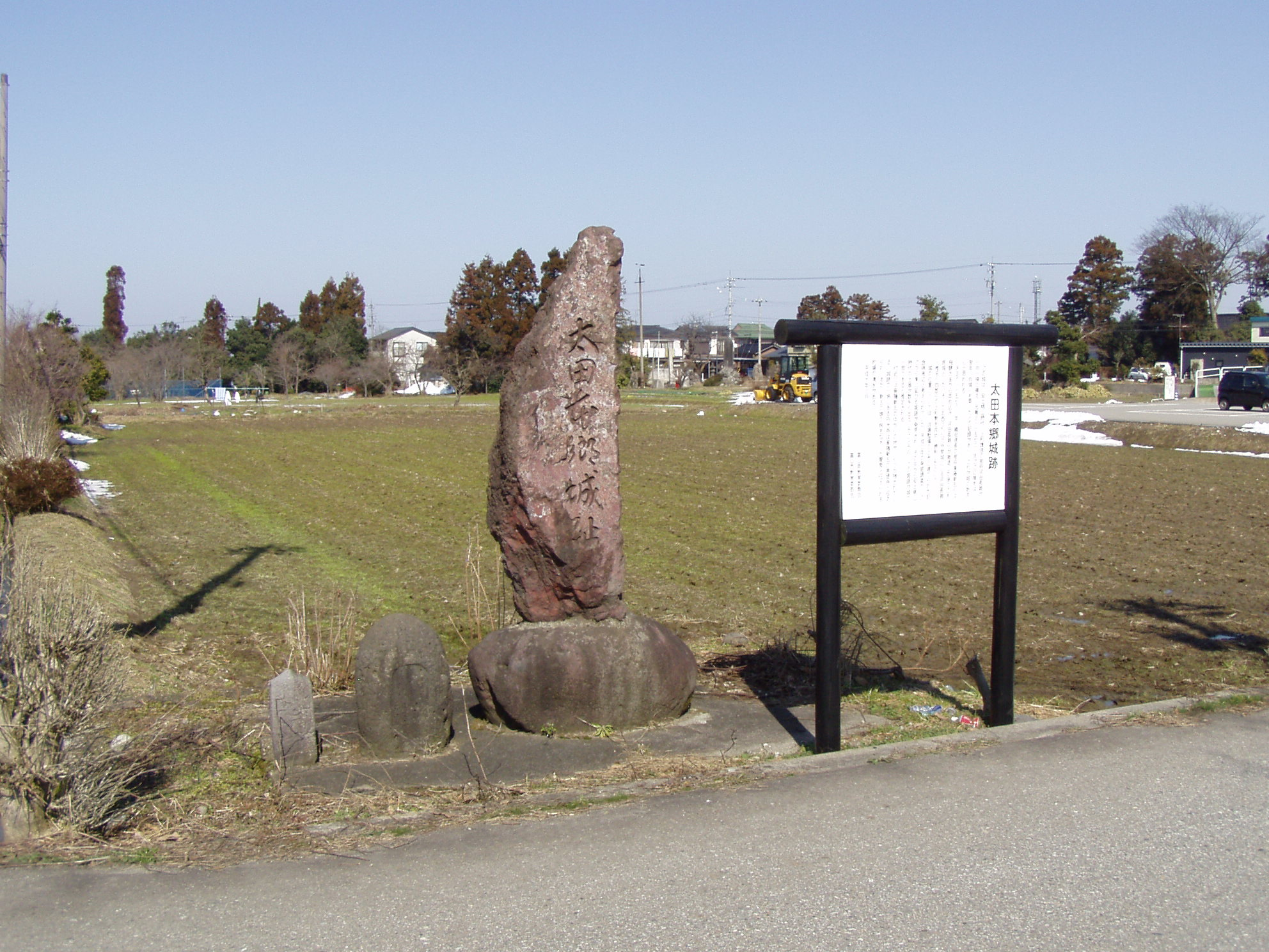 photo of Ohtahongou castle (Toyama Japan)